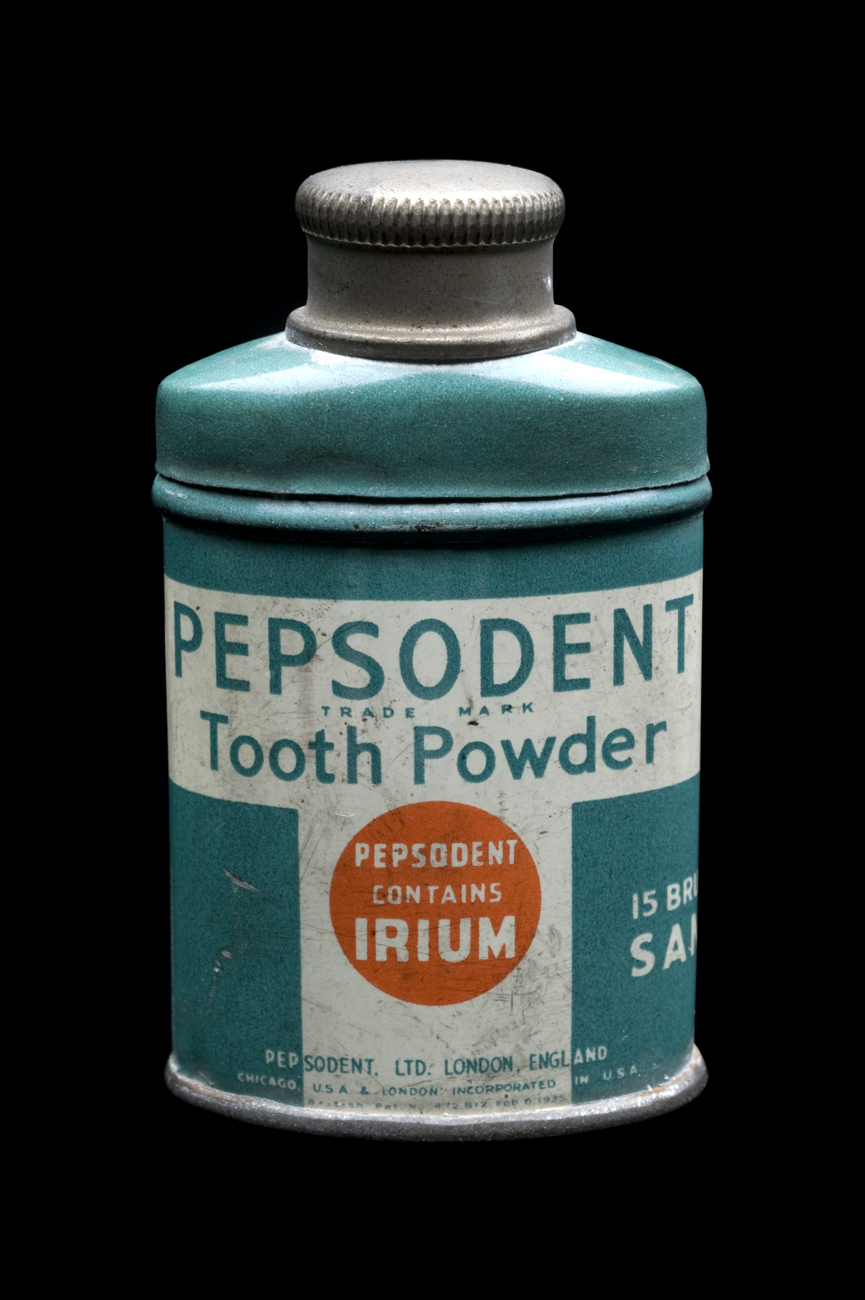 Pepsodent tooth paste contained ‘irium’, described as a ‘magic’ ingredient that would whiten yellow teeth. This popular product used the then famous advertising slogan “You'll wonder where the yellow went when you brush your teeth with Pepsodent!” In reality, irium was simply a chemical compound of sodium. Pepsodent Co. Inc. was an American company based in Chicago which opened up branches in other parts of the world, including London. Although the Pepsodent company was bought by Unilever in 1944, the brand is still available today. maker: Pepsodent Limited Place made: London, Greater London, England, United Kingdom Wellcome Images Keywords: tooth powder; Dentistry